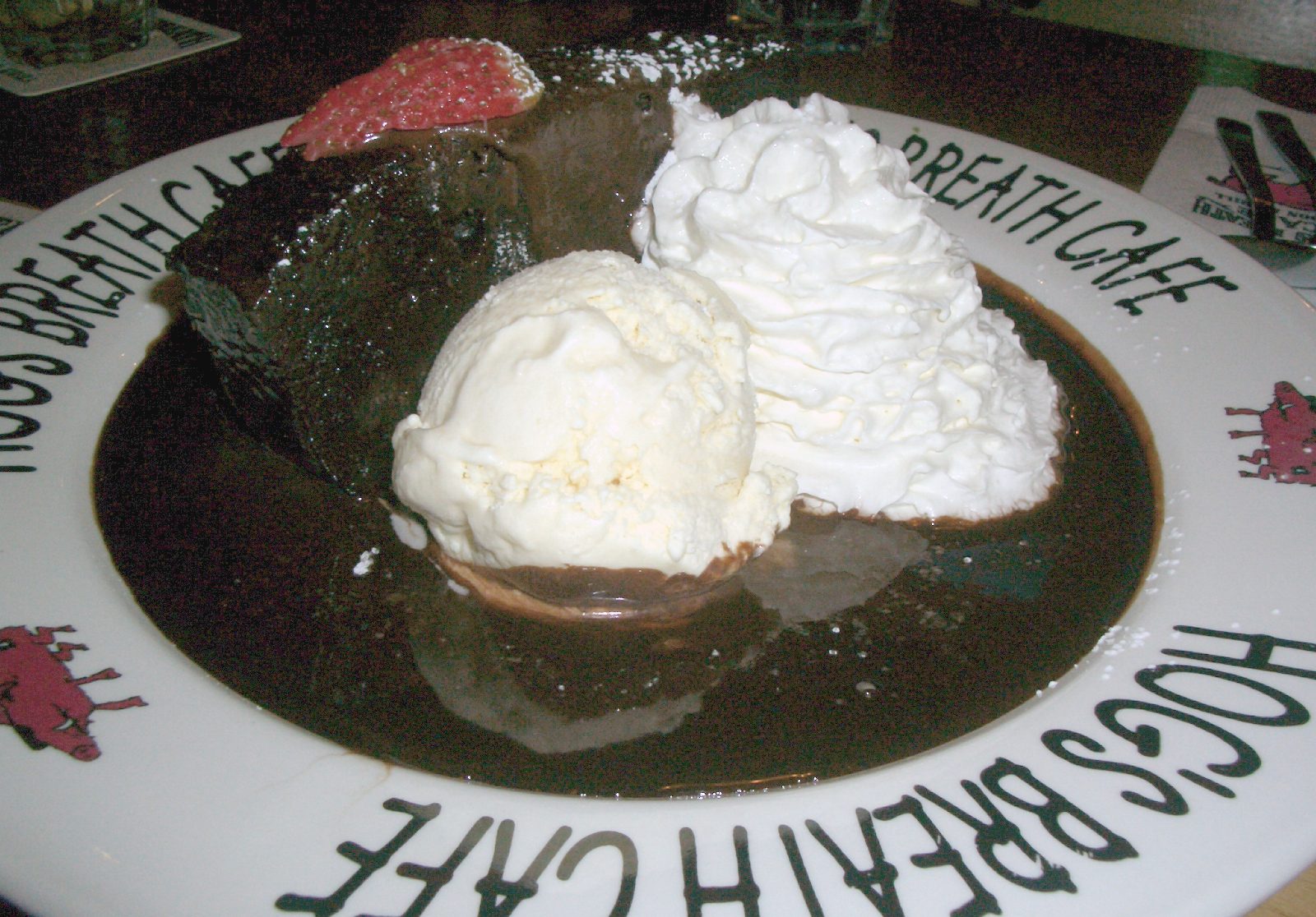 Mud pie with ice cream, whipped cream, and strawberry.